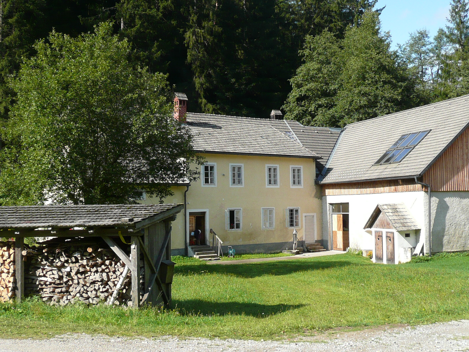 Farm below the castle